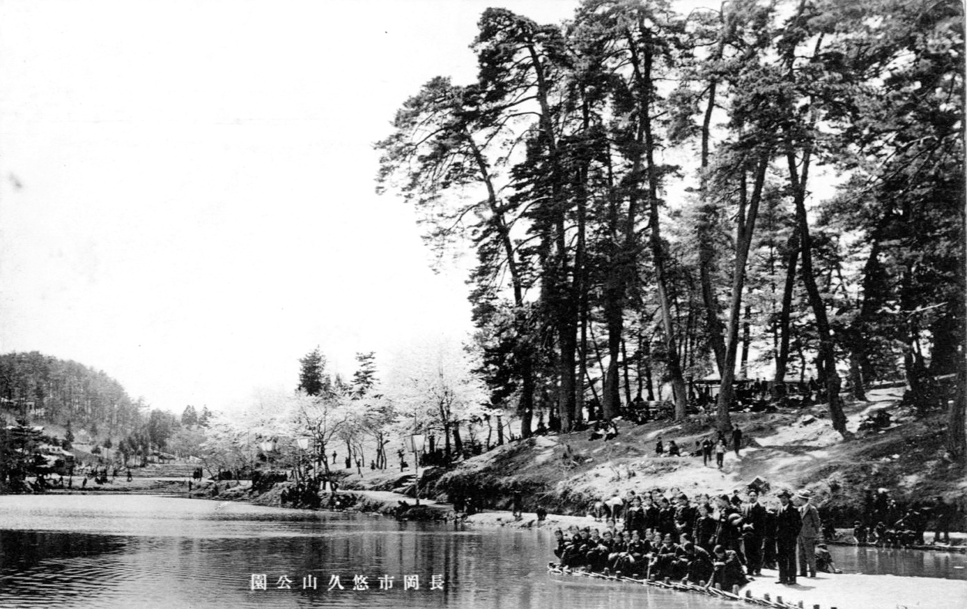 Postcard of the Yūkyūzan Park in the early Shōwa era